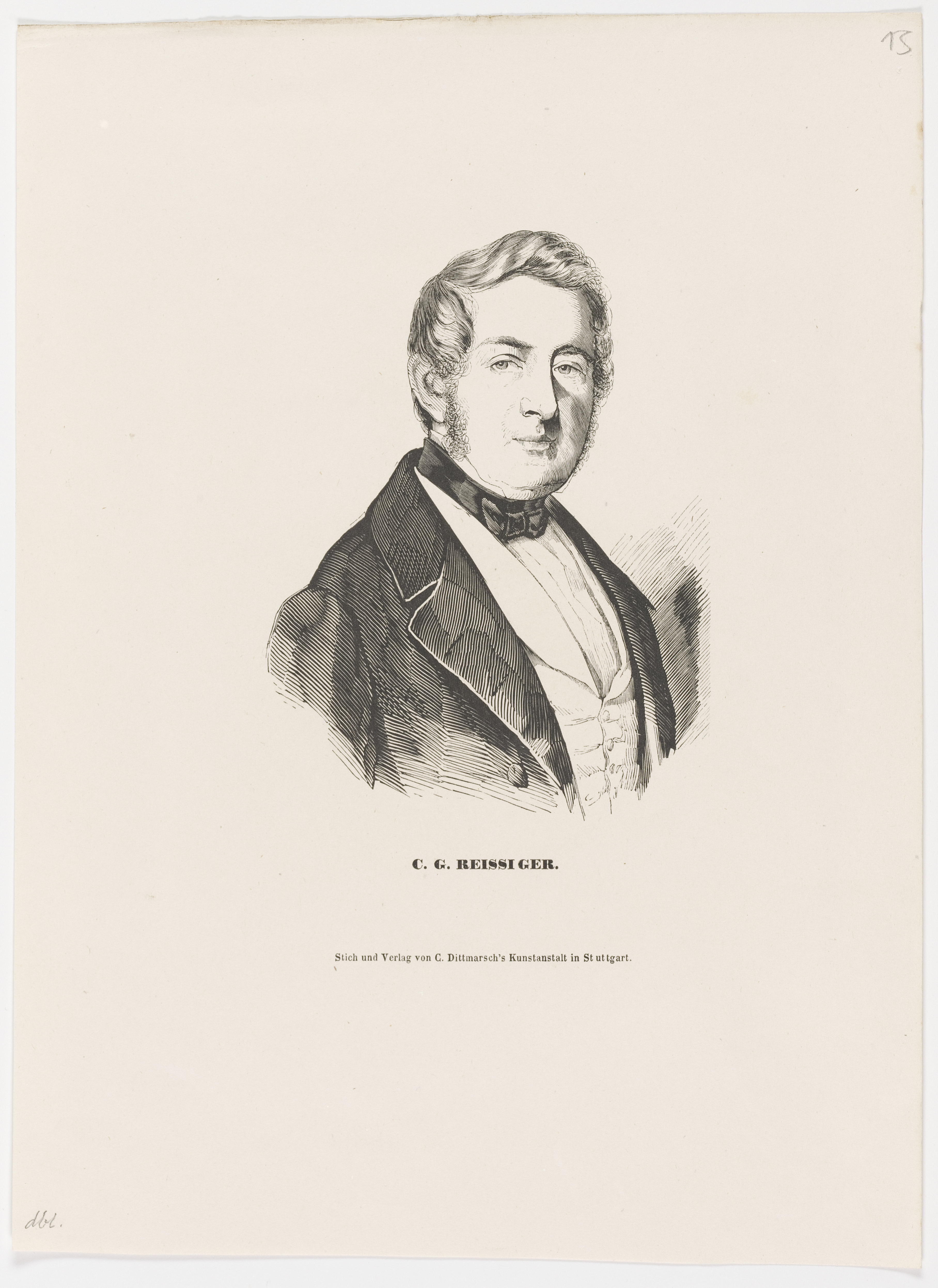 Abgebildete Person: Reißiger, Carl Gottlieb. Holzstich, 1834/1866, 282 x 205 mm (Blatt), im Bestand der Universitätsbibliothek Leipzig, Porträtstichsammlung ICII, 330 Bl. 13 ( siehe auch ). This work has been identified as being free of known restrictions under copyright law, including all related and neighboring rights ( Leipzig University Library, 2015.